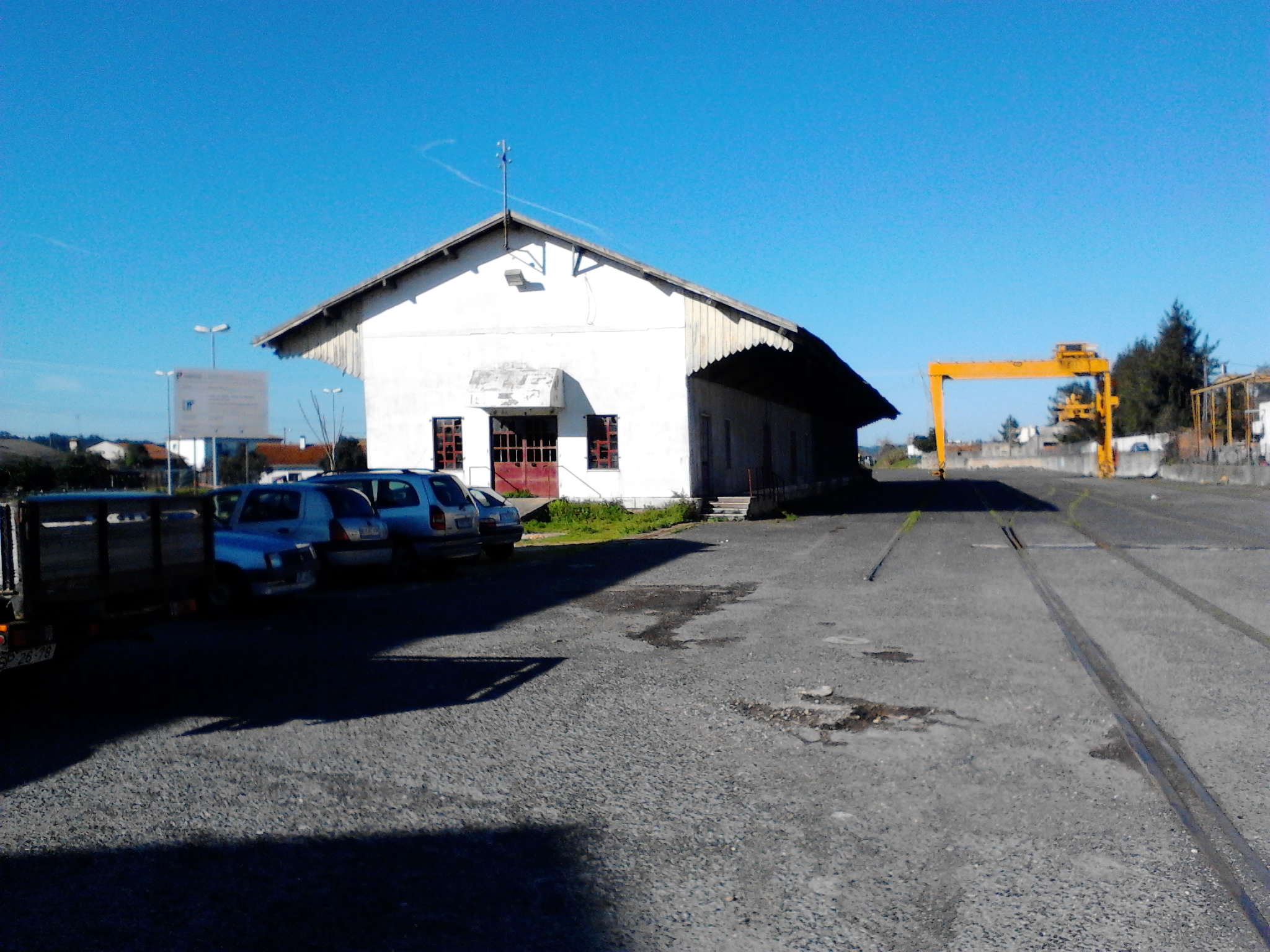 Railyard of CP Carga at Leiria train station, notice the huge crane